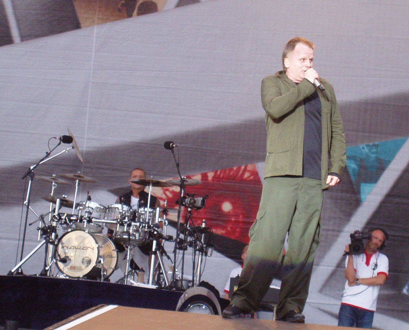 Herbert Grönemeyer in Freiburg (June 20, 2004).